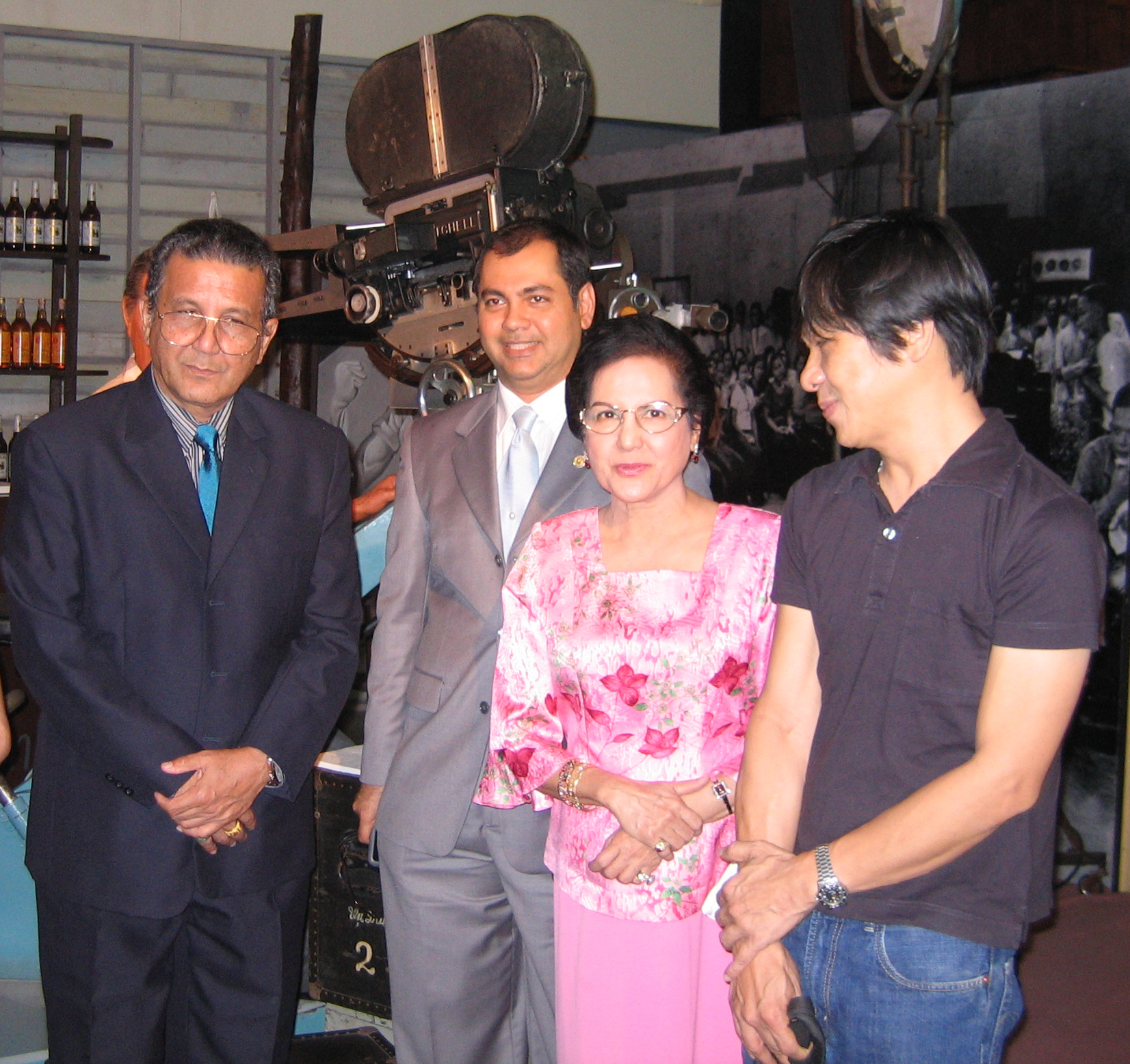 Wisit Sasanatieng, right, with Santa Pestonji, left, and Ratanavadi Ratanabhand at the National Film Archive of Thailand on the 100th birth anniversary celebration for Rattana Pestonji.